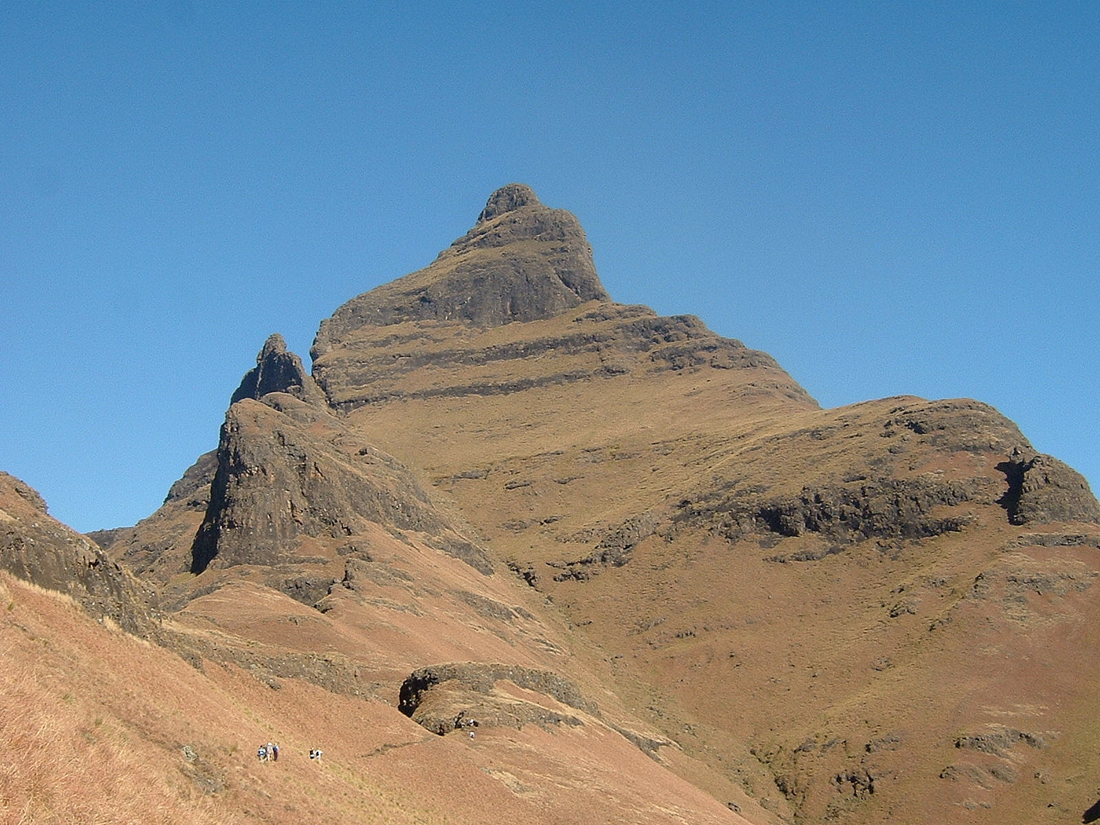 Cathedral Peak, 3004m above sea level in the KwaZulu-Natal Drakensberg, South Africa